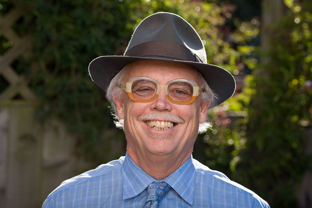 self portrait